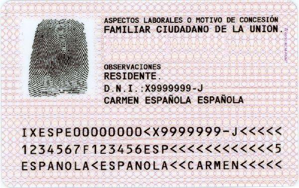 Residence card for a family member of a European Union citizen (back side)